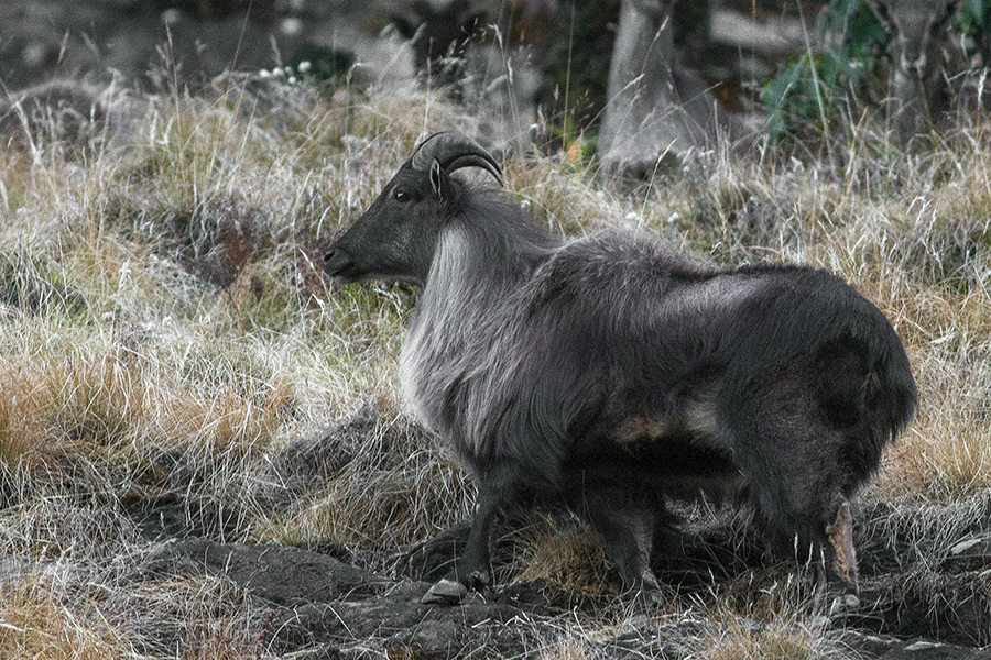 The species Himalayan Tahr had been photographed at Kedarnath Musk Deer Sanctuary in Uttarakhand, India on 30.11.2015.